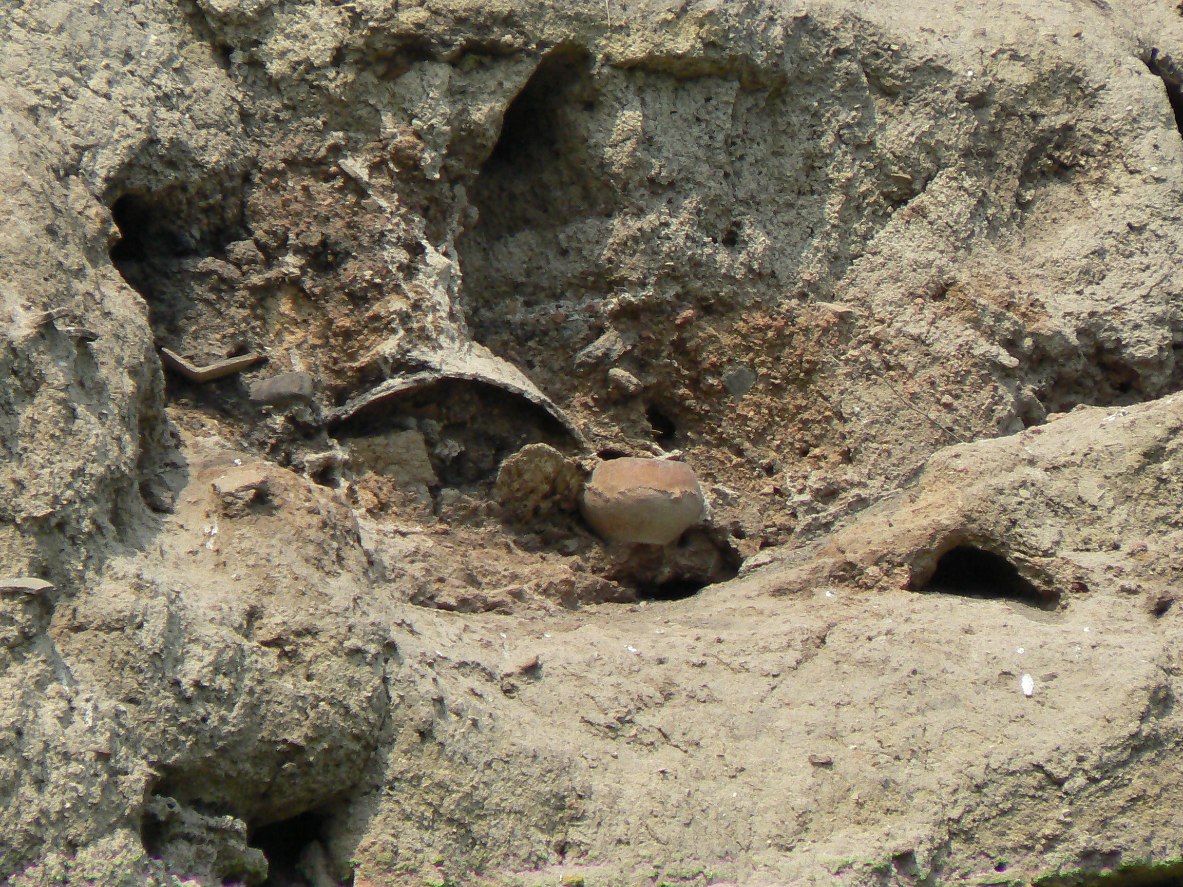 The north side of the Karanovo tumulus. Here and on File:Karanovo-jar-3.jpg there is a closer view of a fireplace and preserved vessel